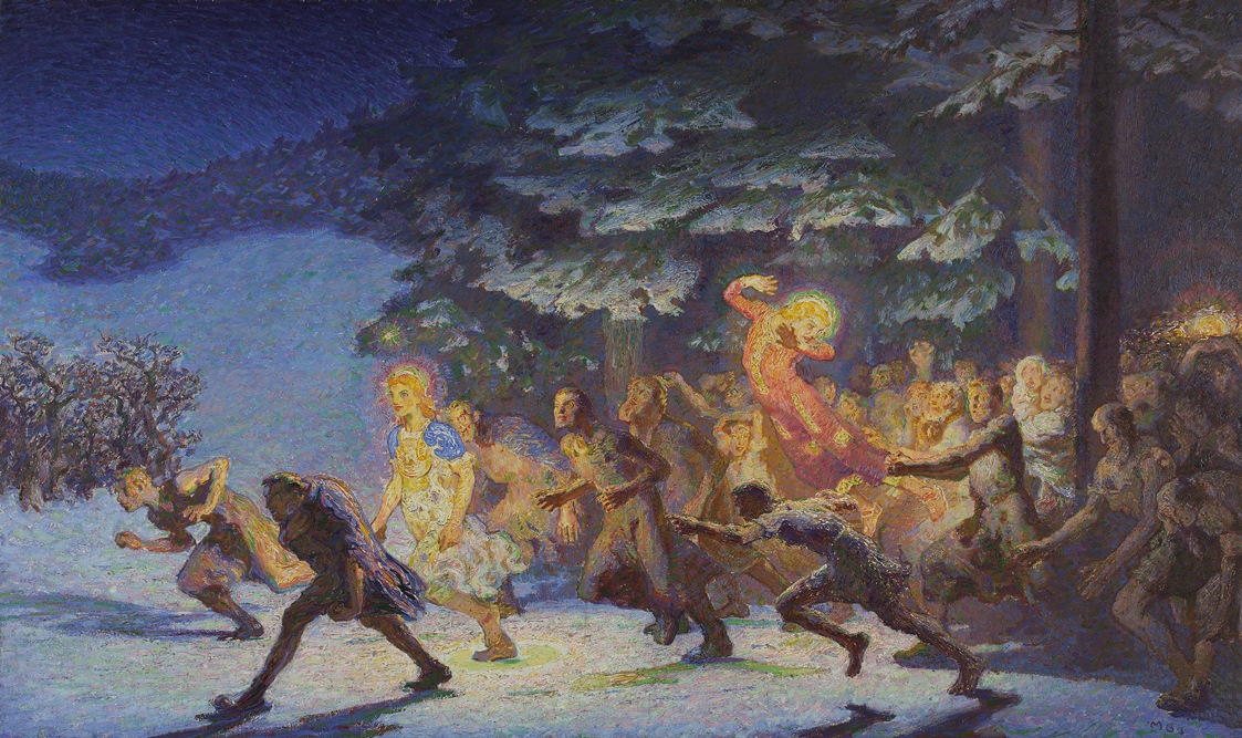 Good News!